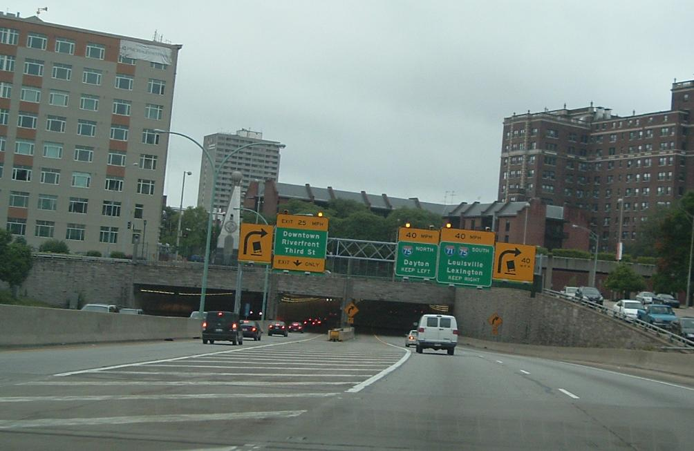 Lytle Tunnel Entrance carrying I-71 under a part of Cincinnati. Self Made Photo.